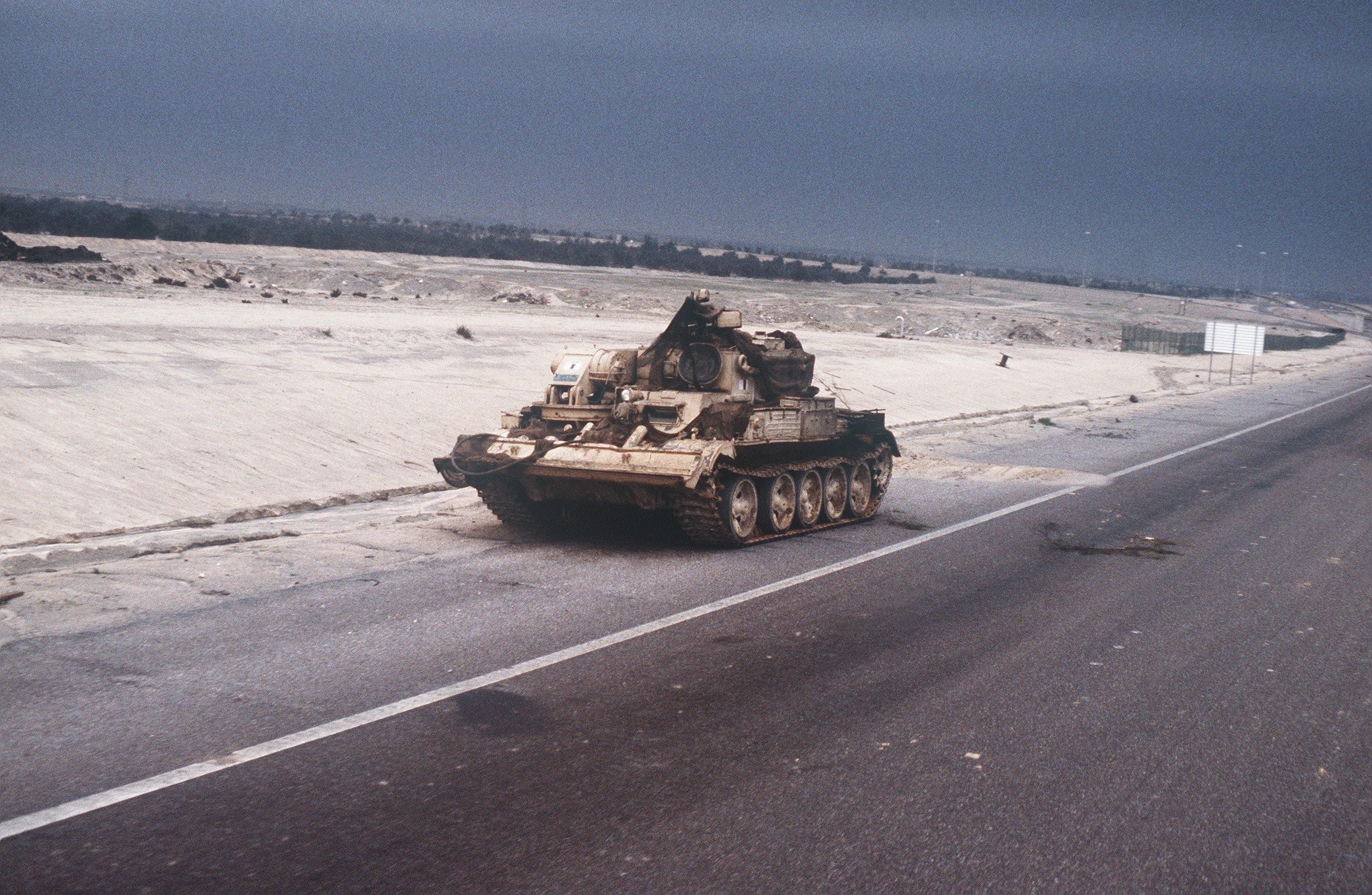 A Chinese-made Type 653 armored recovery vehicle abandoned by Iraqi troops sits on the side of the road into Kuwait City during the ground phase of Operation DESERT STORM.